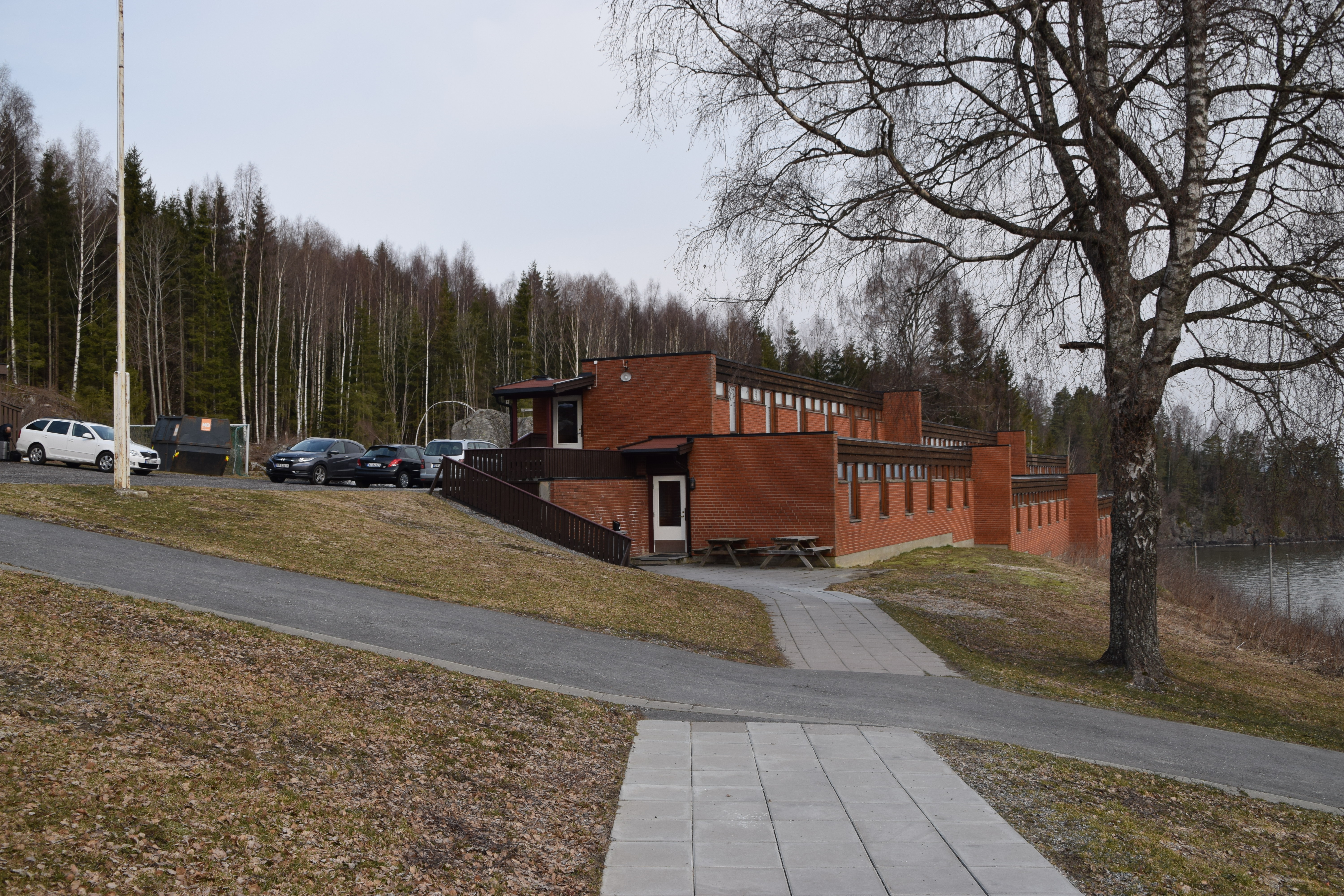 Buildings belonging to the Mariaholm congres center in Østfold county in Norway.